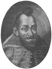 Gabriel Bethlen (de Iktár) (1580-1629)